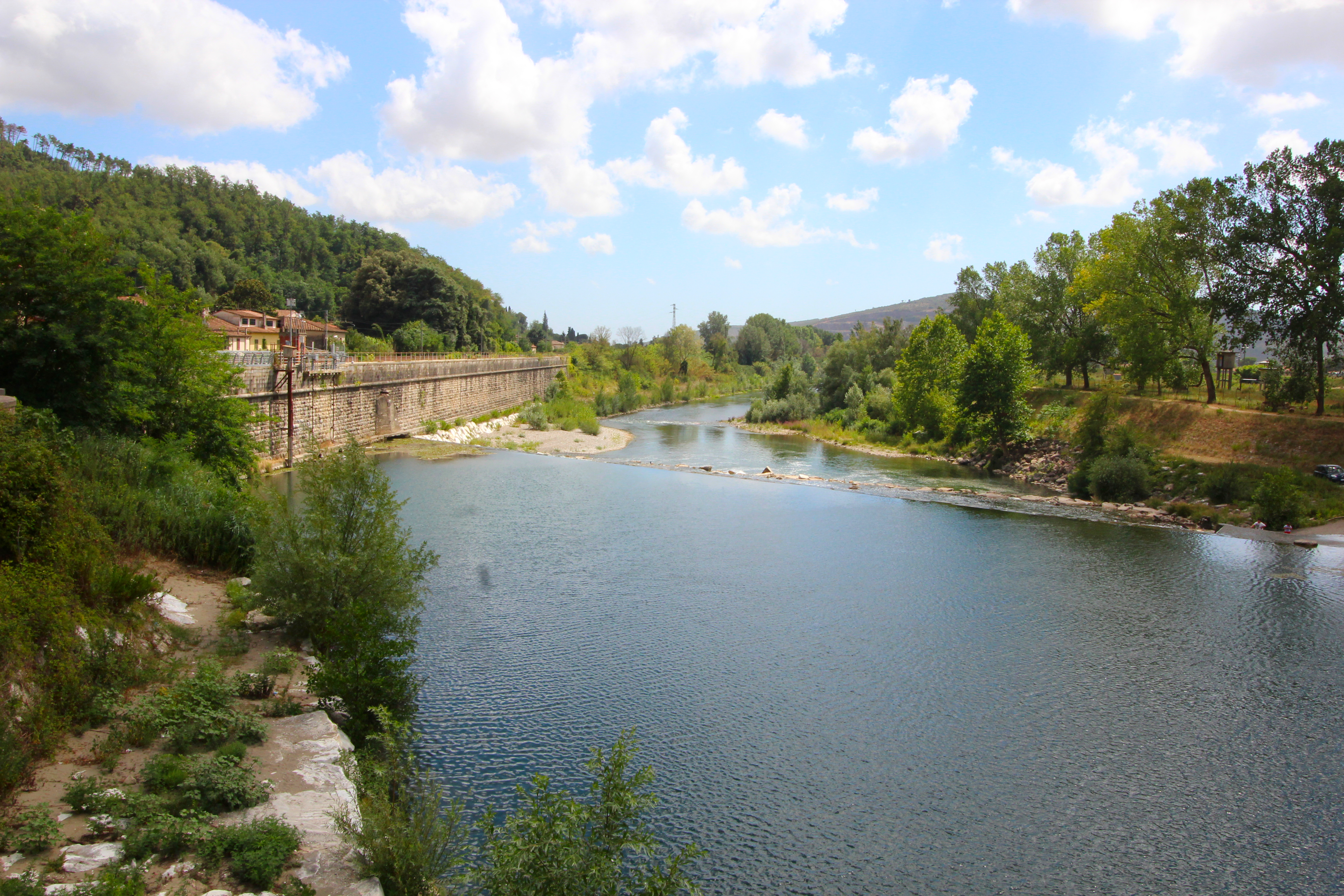 The Serchio River in Ripafratta (also called: Falls of Ripafratta, Cascate di Ripafratta, La Steccaia), Ripafratta, hamlet of San Giuliano Terme, Province of Pisa, Tuscany, Italy